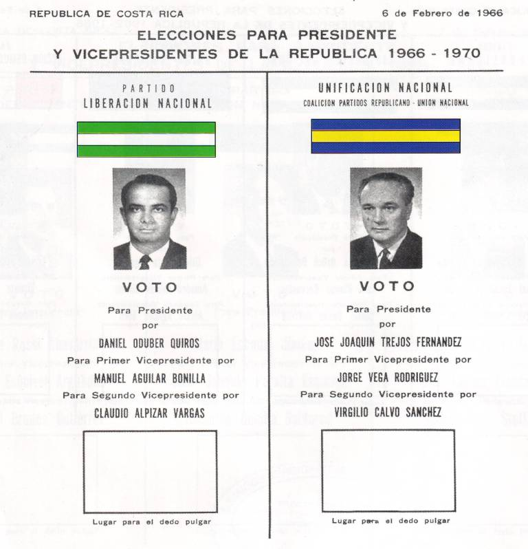 Papeleta presidencial de 1966